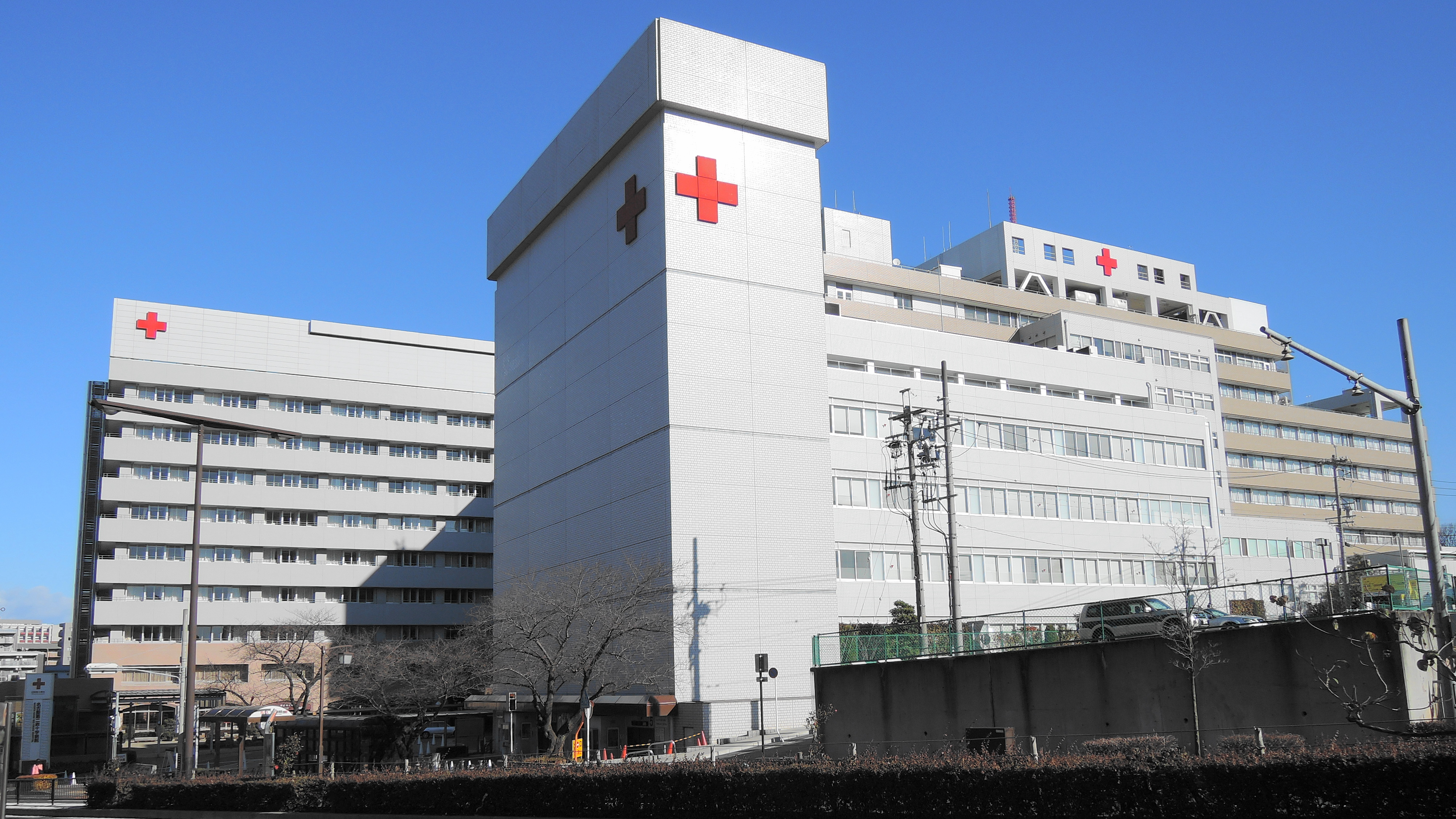 Japanese Red Cross Nagoya Daini hospital,Aichi prefecture, Japan